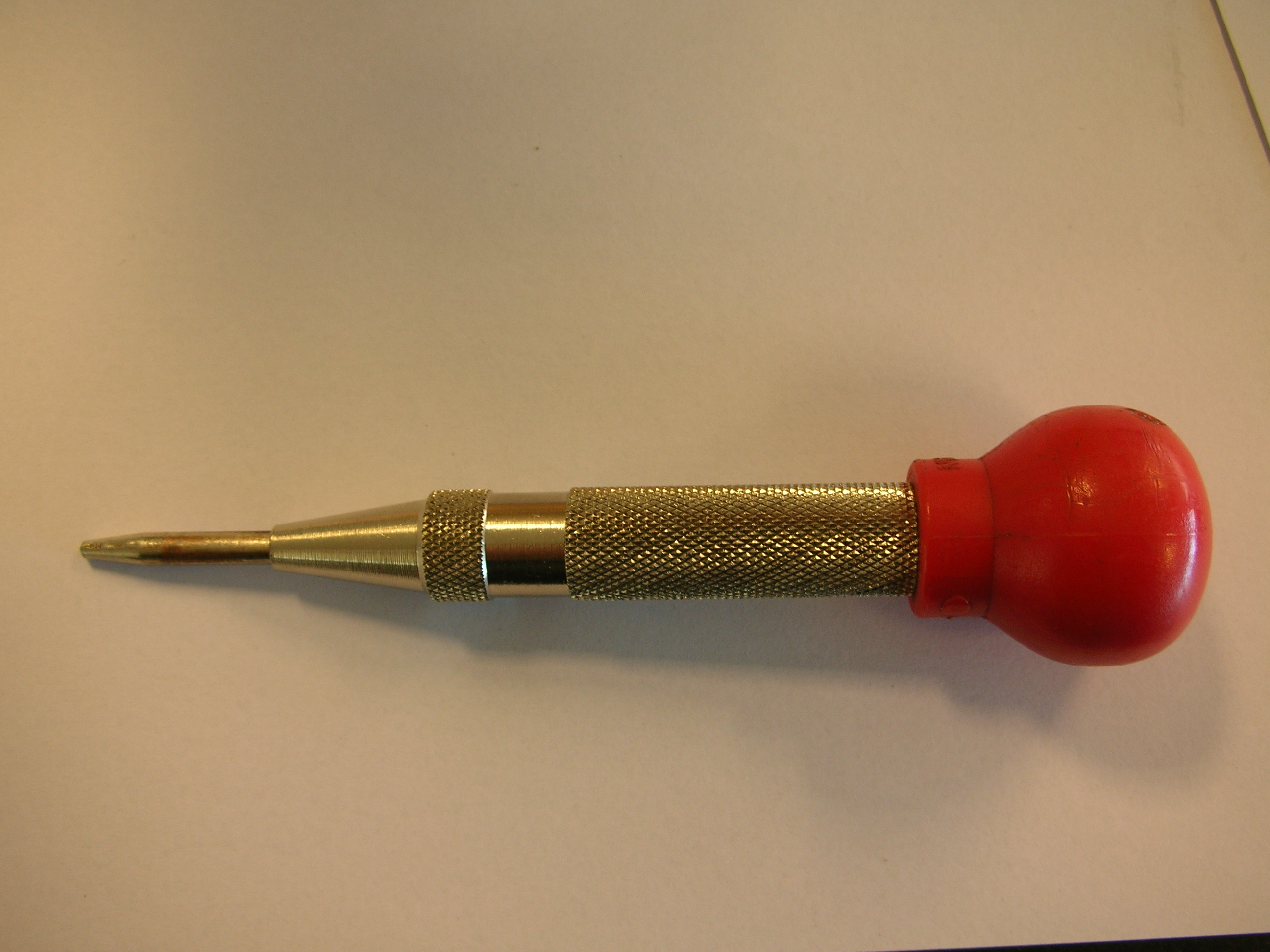 Automatic center punch